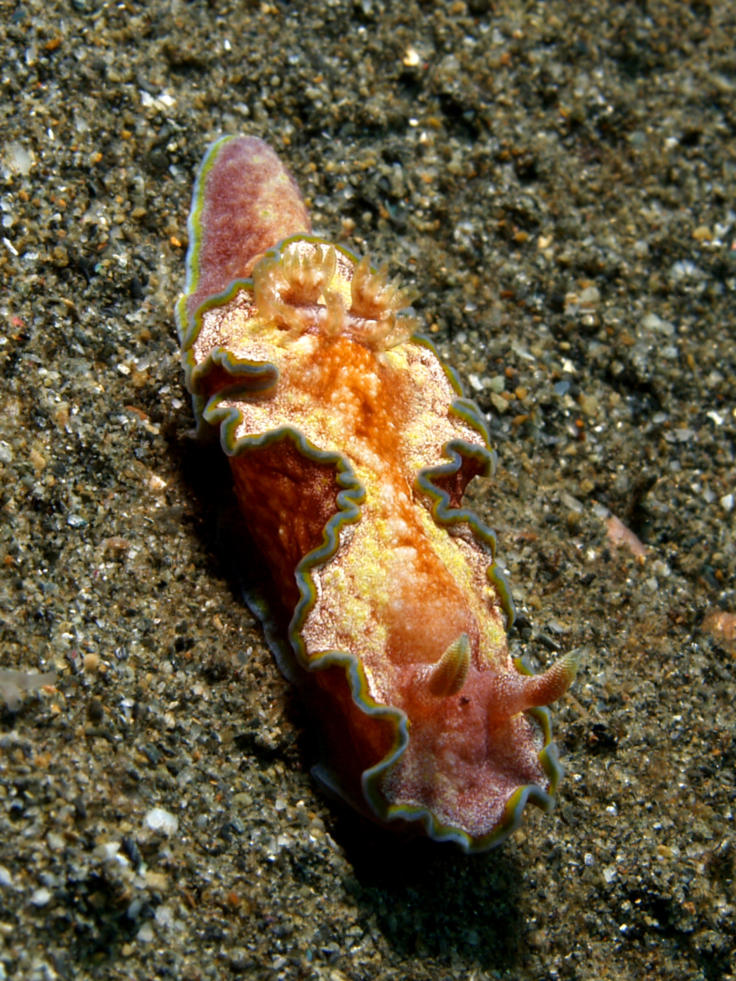 Glossodoris cincta (Nudibranch)